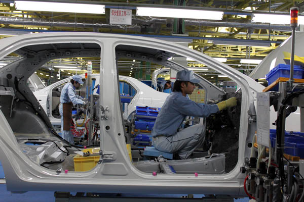 New Toyota factory in Ohira, near Sendai, Miyagi Prefecture, Japan. A month after this picture was taken, the region was devastated by the March 11 earthquake and tsunami. The plant was only lightly damaged, but remained closed for more than a month, mainly due to lack of supplies and energy, in addition to a badly damaged Sendai port. Picture by Bertel Schmitt